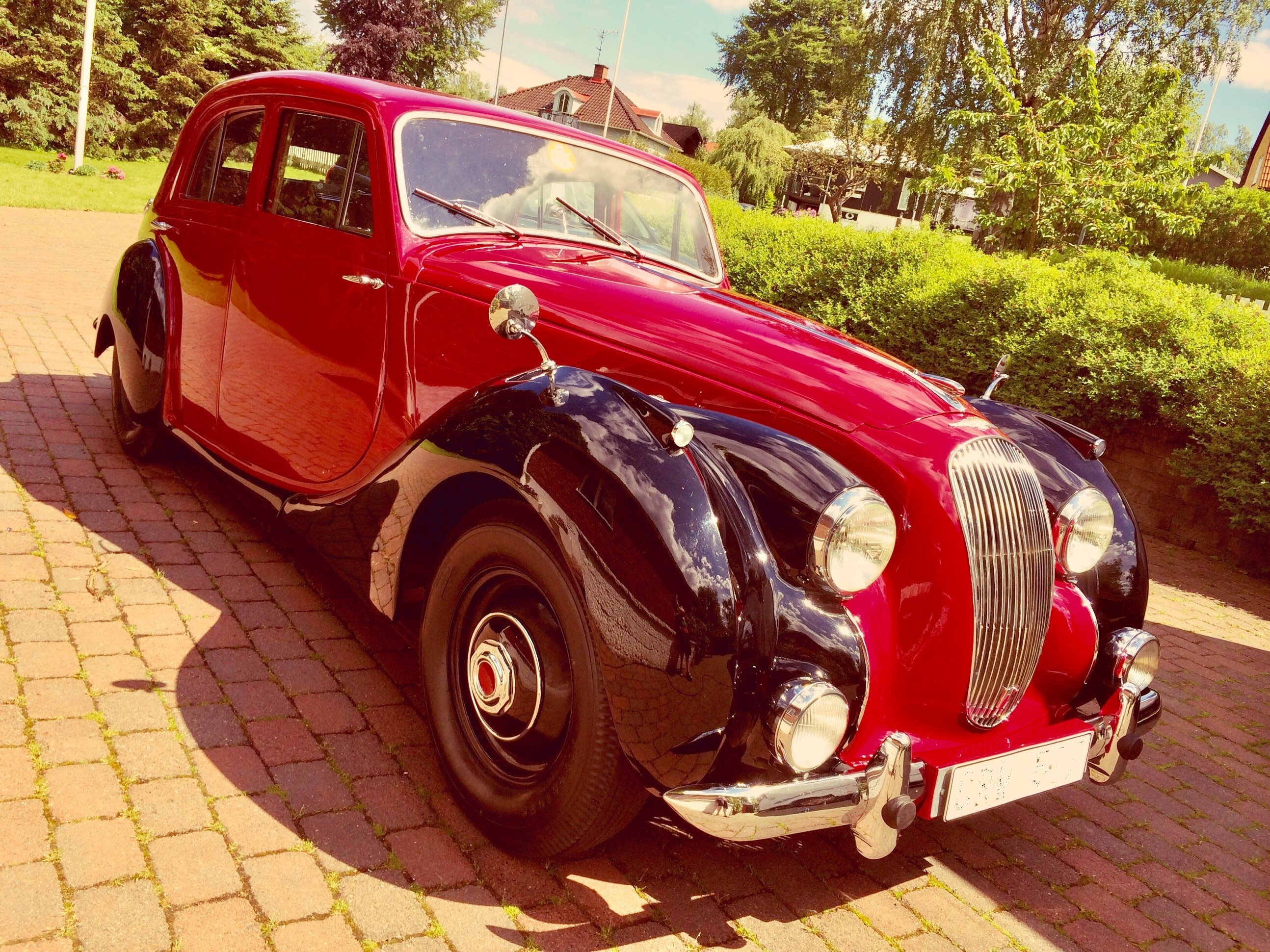 Year 1951, Saloon